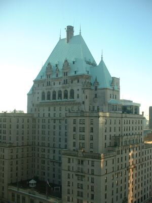 Fairmount Hotel Vancouver, Canada. Photograph taken from the neighbouring Hyatt Regency hotel by Stephen Lea (User:Seglea), 6th November 2003.